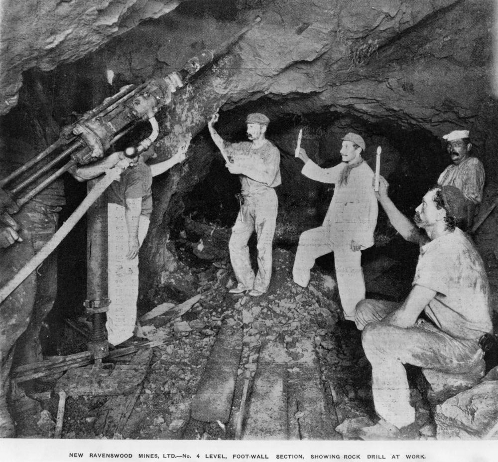 Underground in the New Ravenswood Mines, Queensland, ca. 1905. Script under photograph reads: New Ravenswood Mines Ltd. - No. 4 Level foot-wall section, showing rock drill at work. (Description taken from The Queenslander, 14 January 1905, p.2).